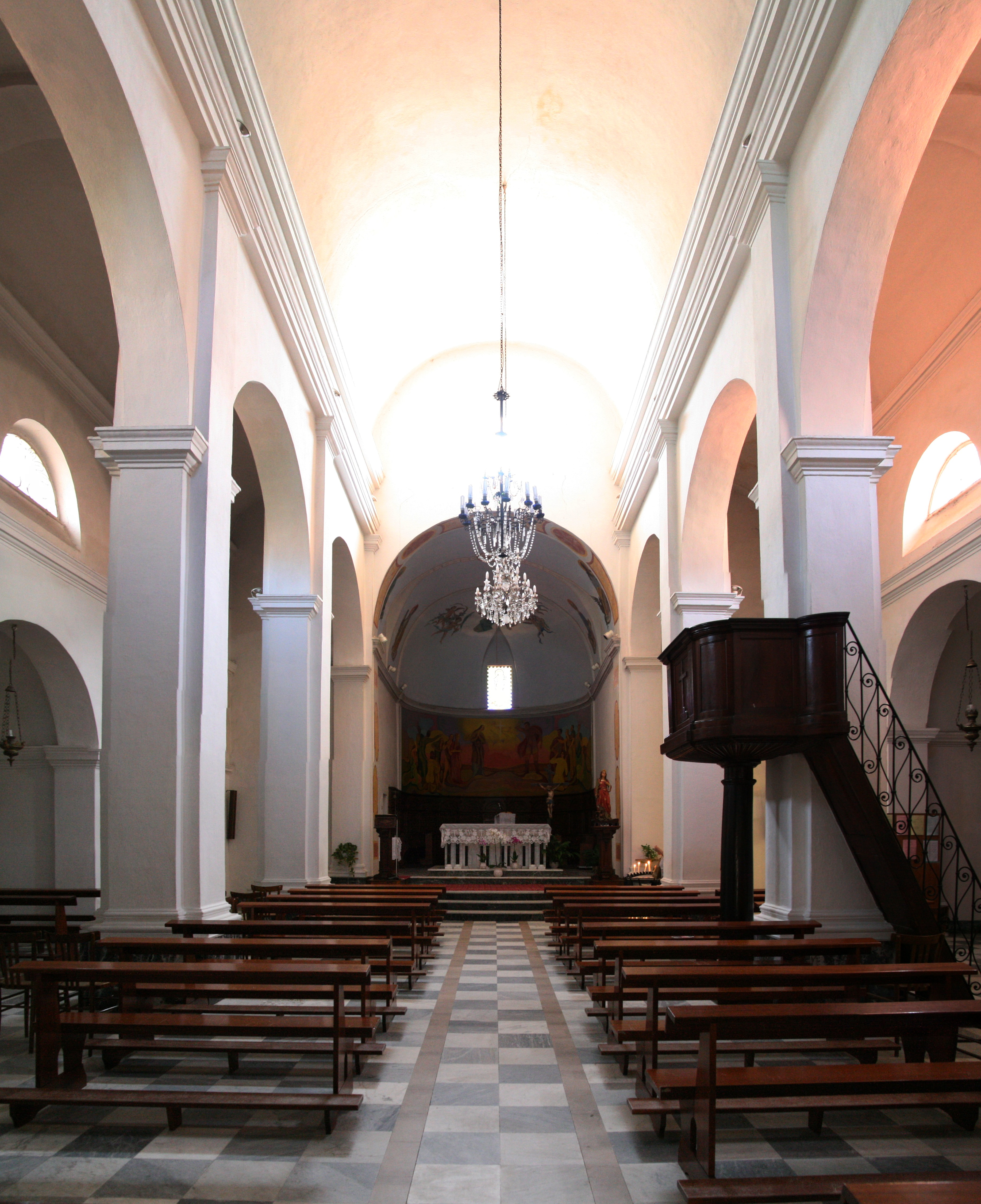 Interior of Santa Vittoria church in Aggius, Sardinia.